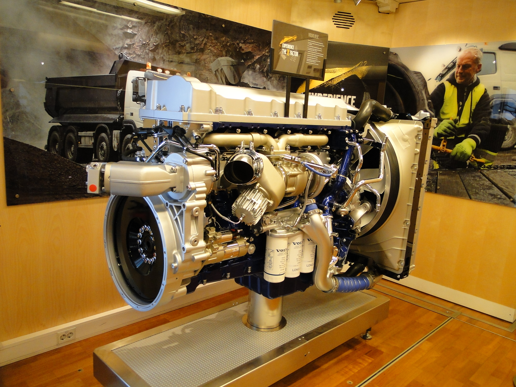 Volvo D13C Motor